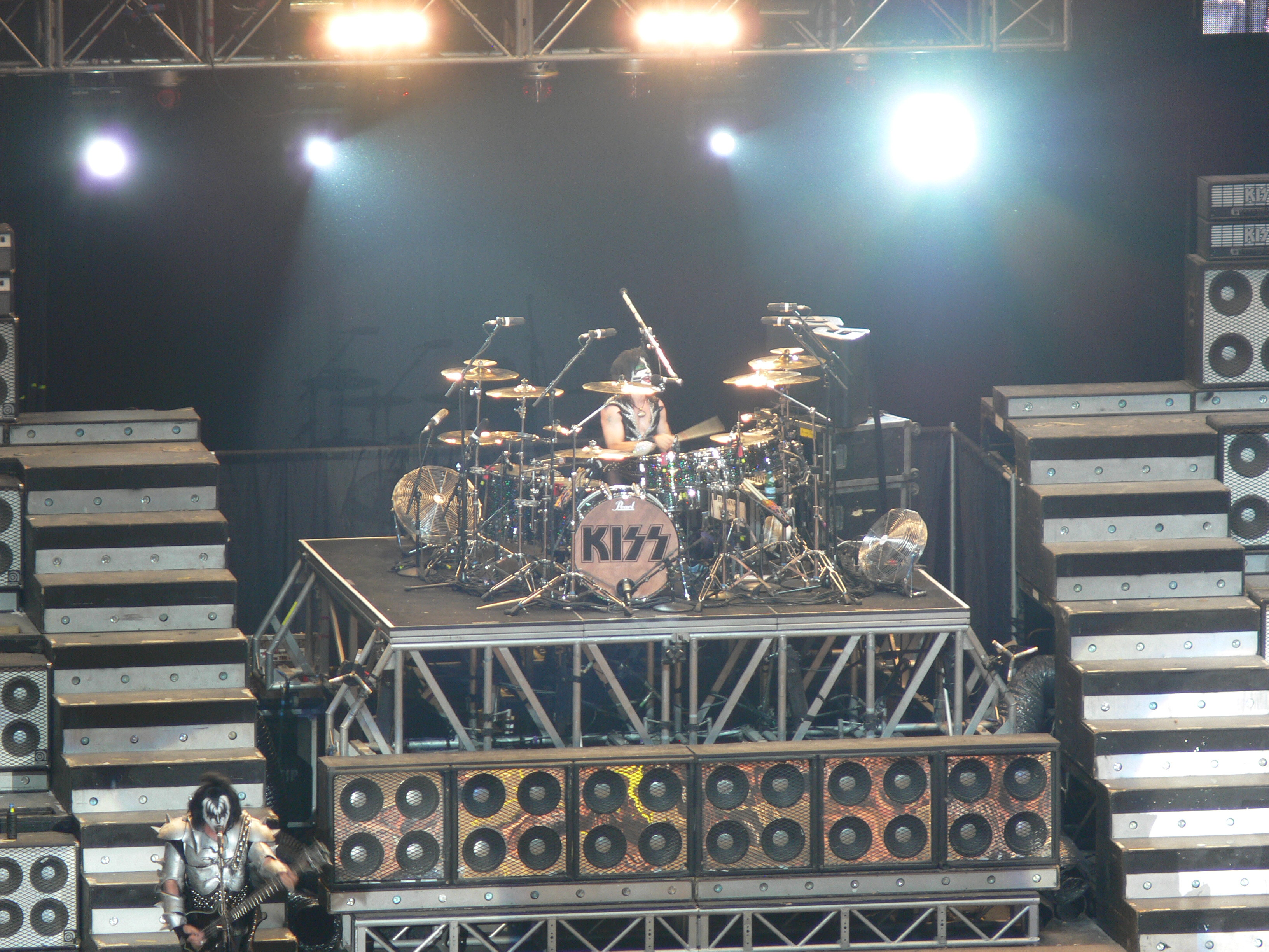 KISS